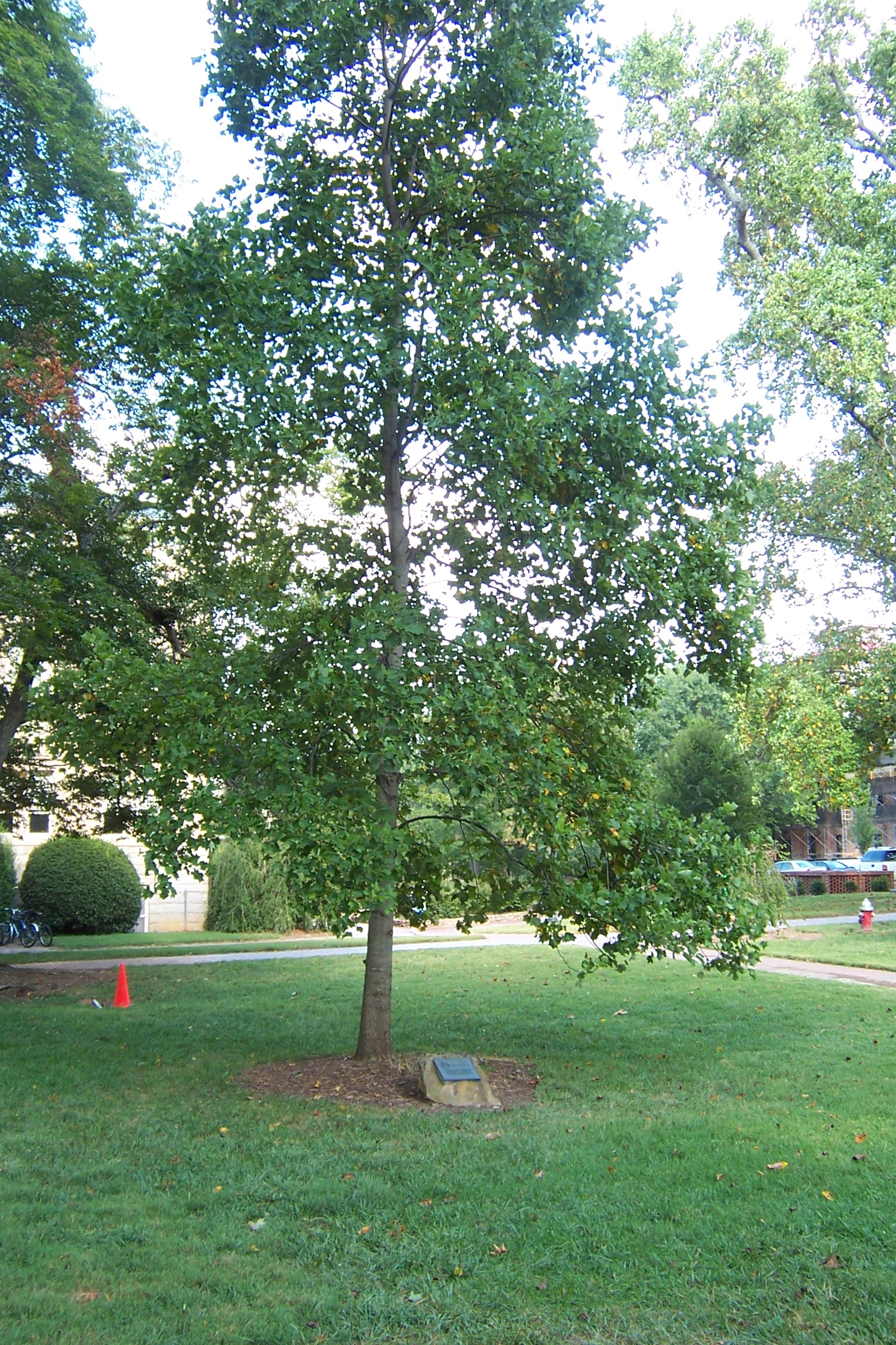 Davie Poplar III at the University of North Carolina. Planted 1993; photographed in March 2004.